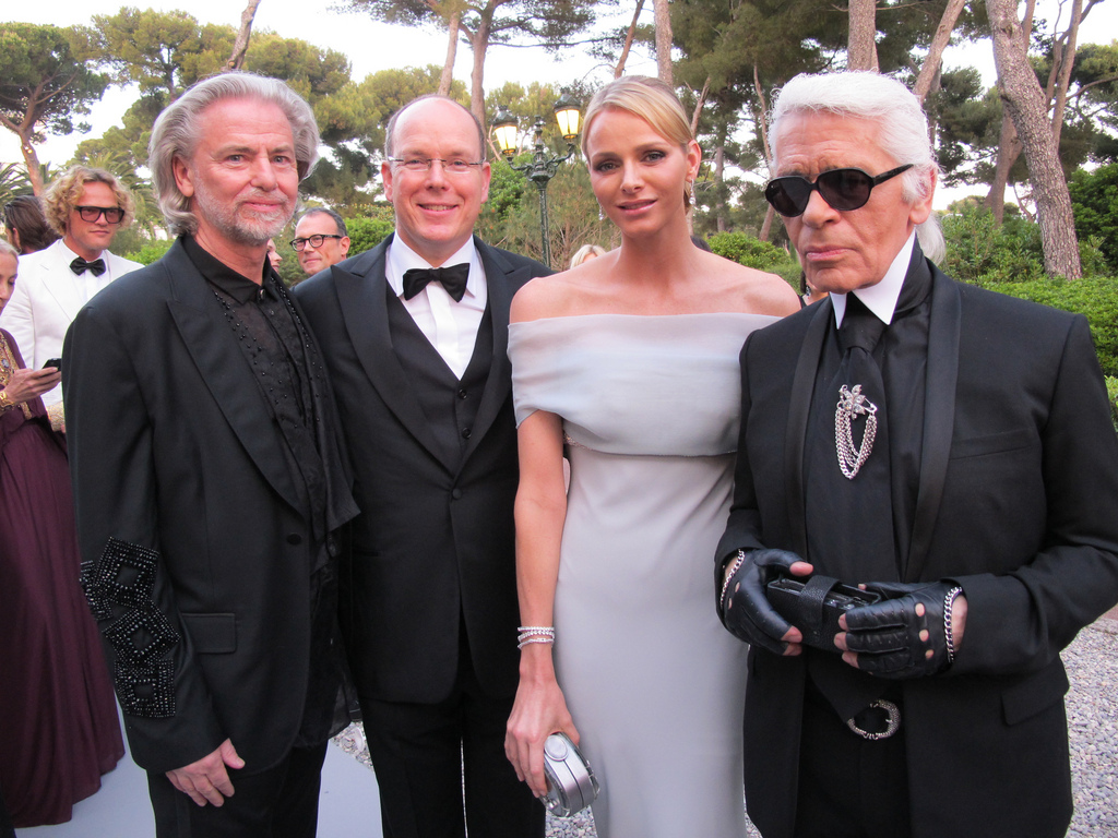 The Prince and Princess of Monaco with Hermann Bühlbecker and Karl Lagerfeld at the "Cinema Against AIDS" Gala.